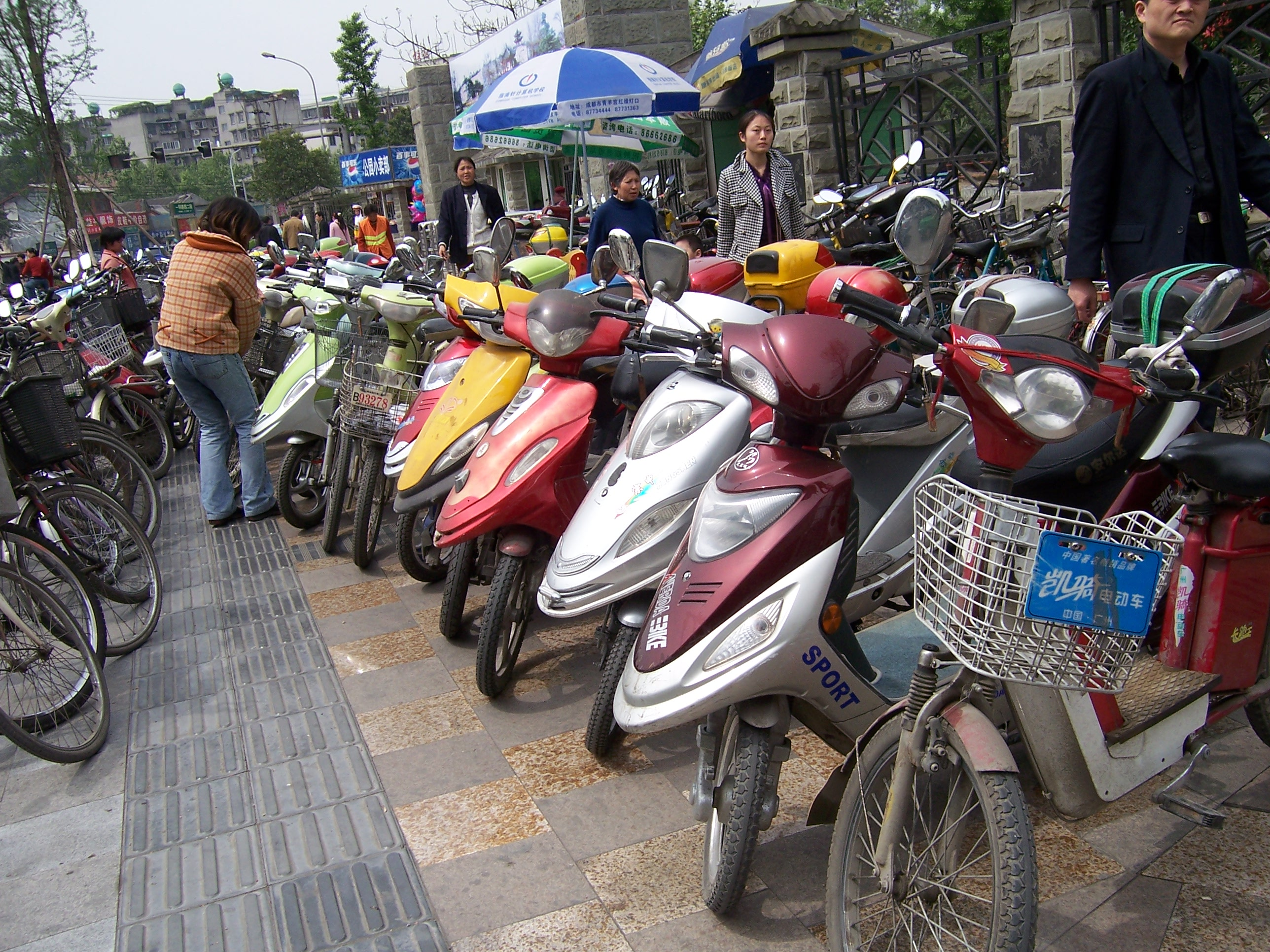 Parking Electric Scooters @ Chengdu